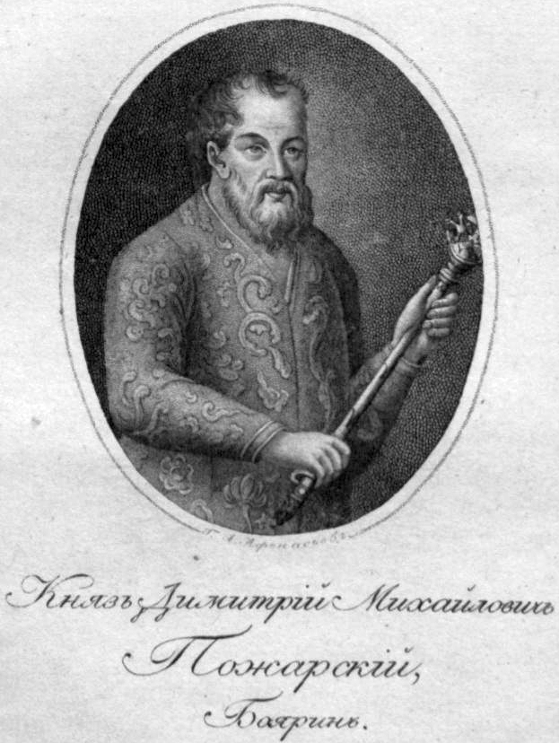 Dmitry Pozharsky